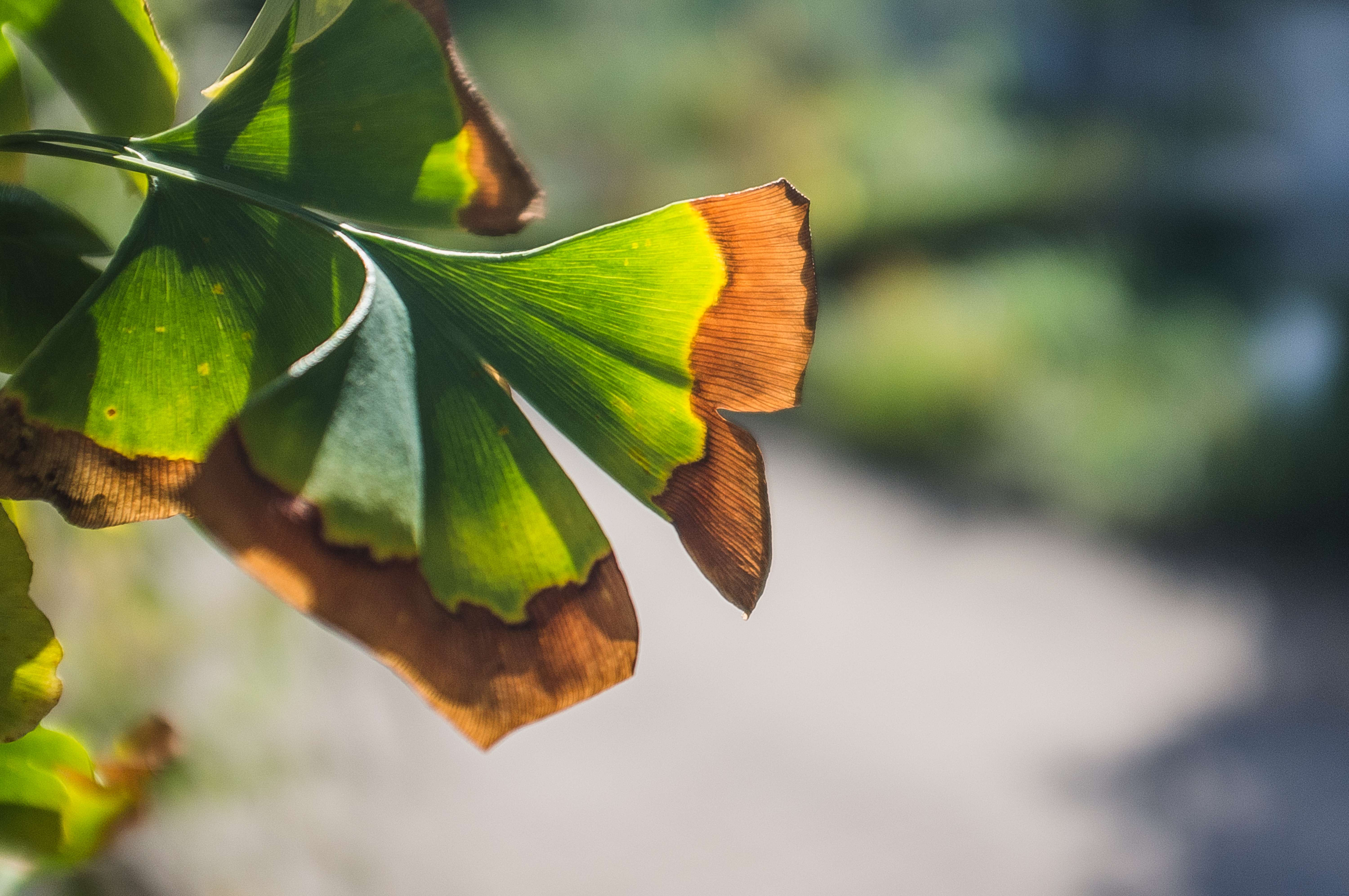 Senescence in Ginkgo biloba leaves